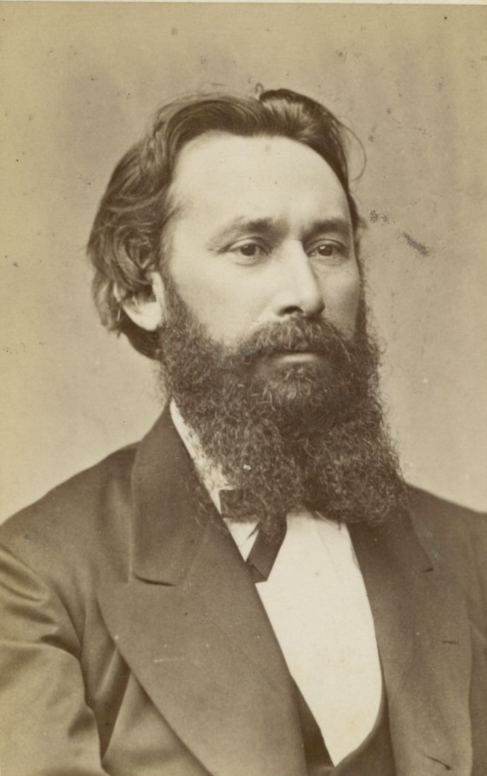 Artist: E. Bieber Date/place: Unknown date/Hamburg Subject: Julius Stockhausen Medium: Photographic posetive Notes: German singer. Born in Paris 22.07. 1826 - dead in Frankfurt am Main 22.09. 1906 Original belongs to the Archives at [#//bergenbibliotek.no/digitale-samlinger” Bergen Public Library]